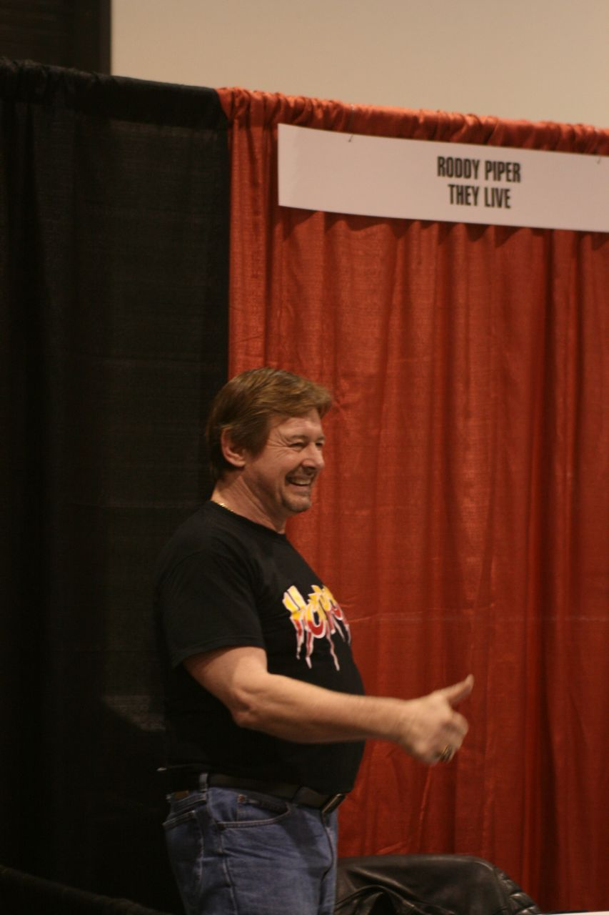 Professional wrestler "Rowdy" Roddy Piper